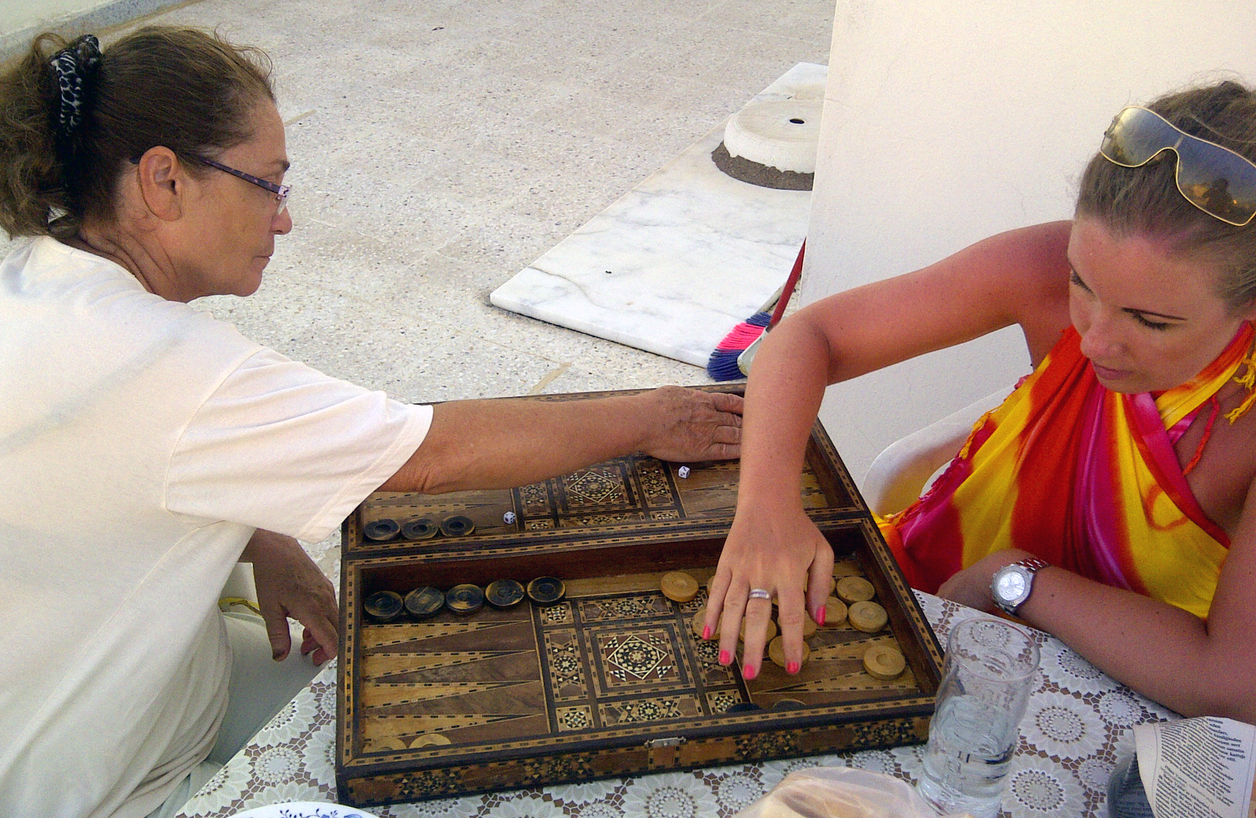 Women playing backgammon in Serik, Turkey